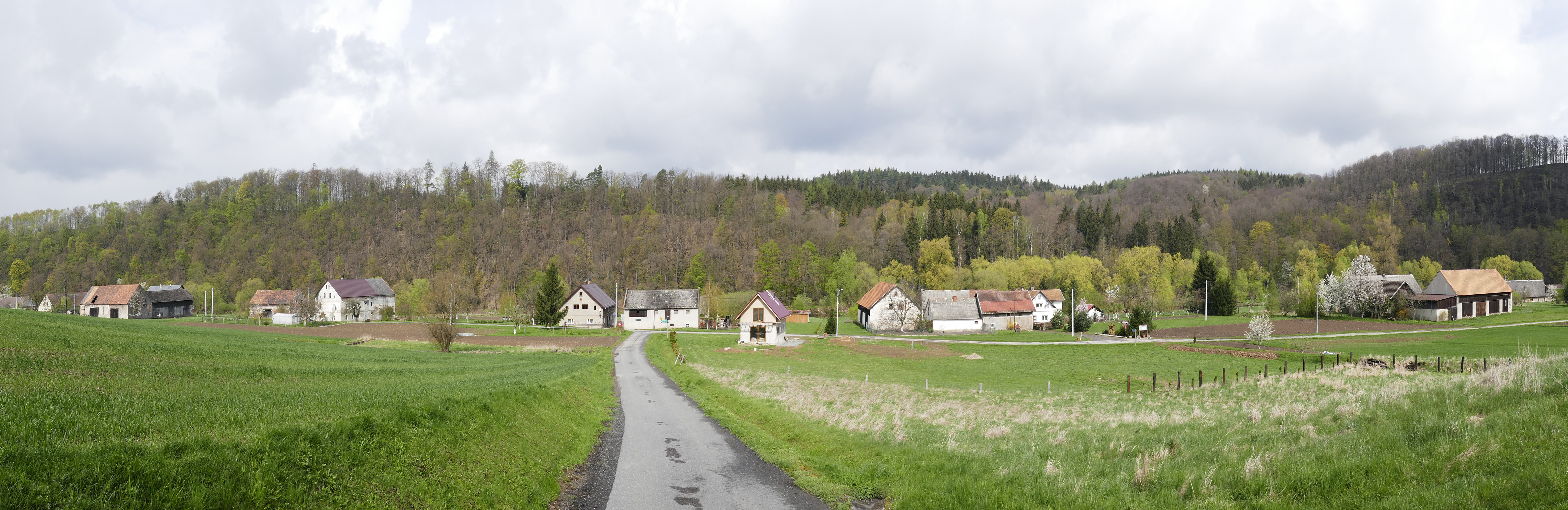 Panorama of Morzyszów